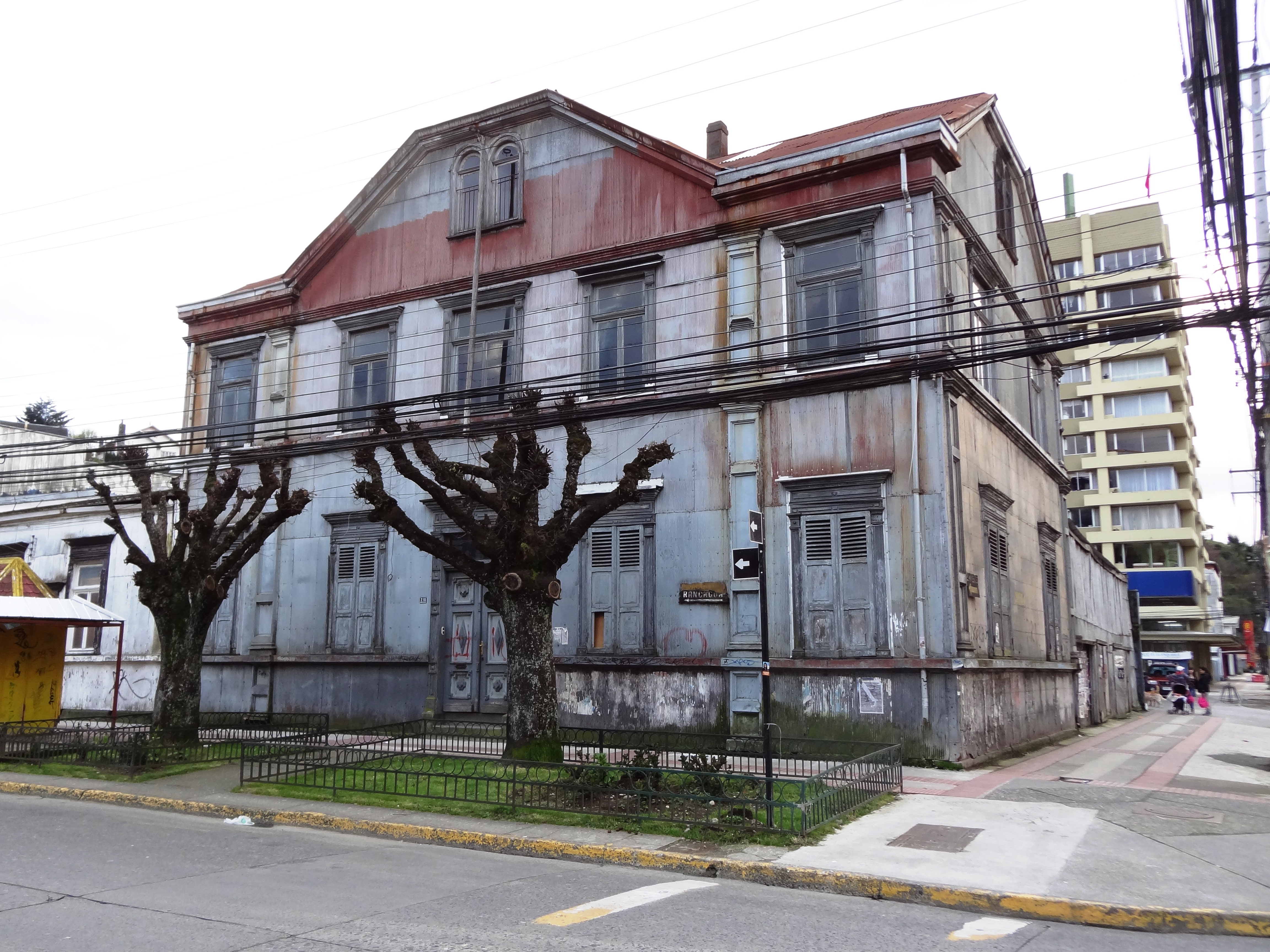 Pauly Home